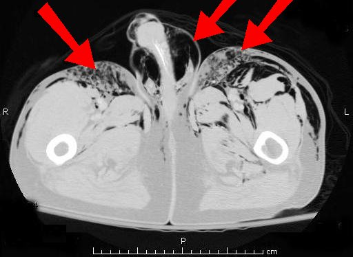 Modified version of Image:Subcutaneous_emphysema_pelvis.jpg, a CT scan of a patient with severe subcutaneous emphysema. Pelvic CT.